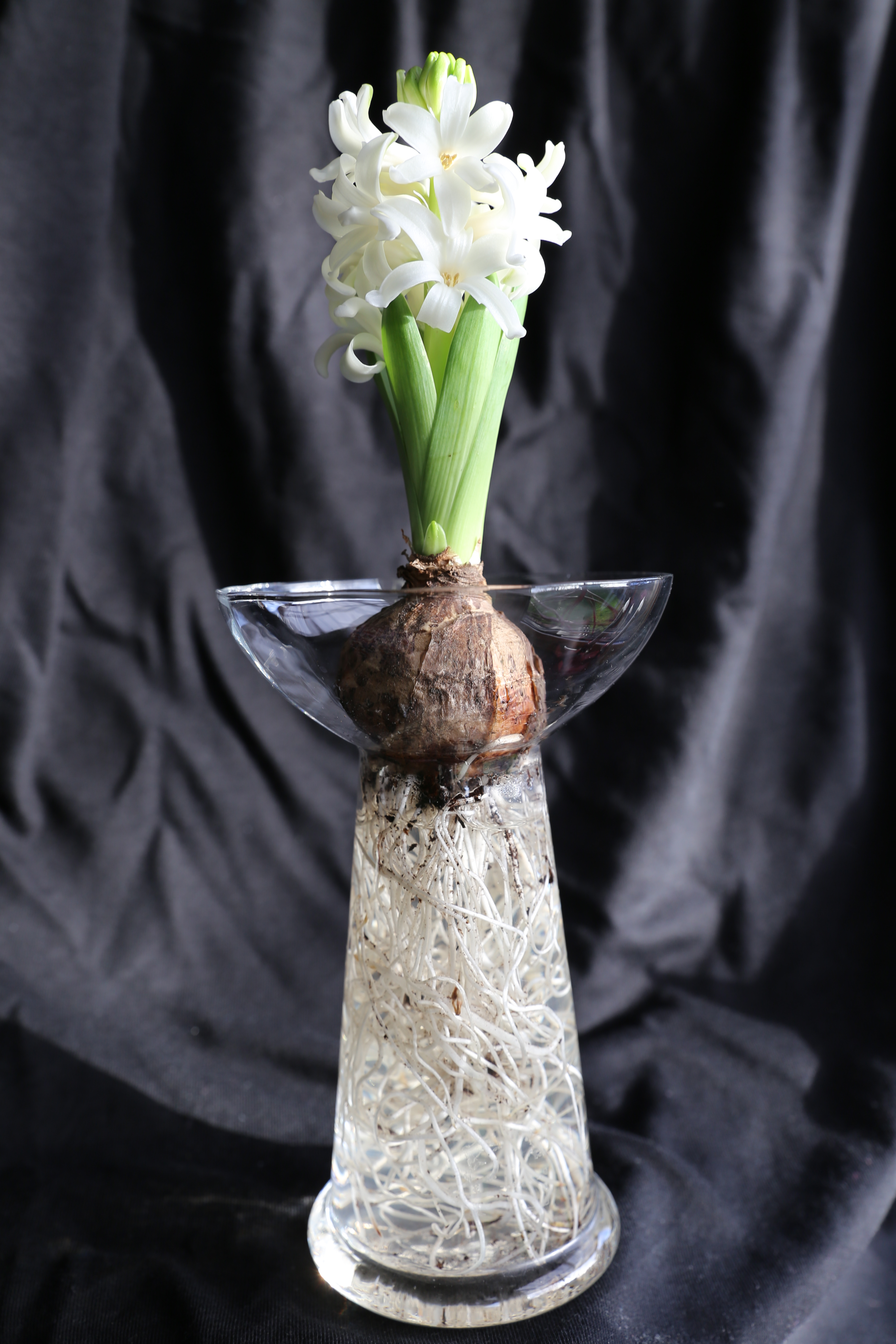 A vase designed for onions.